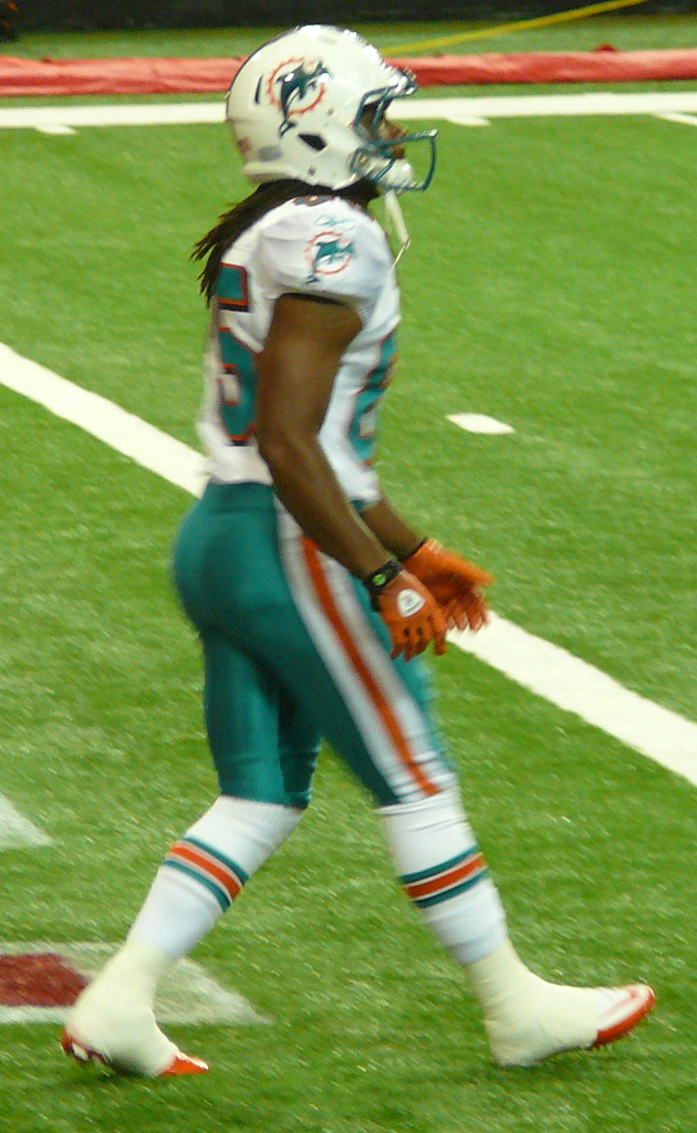 If used somewhere other than Wikipedia, Nelson, by name.